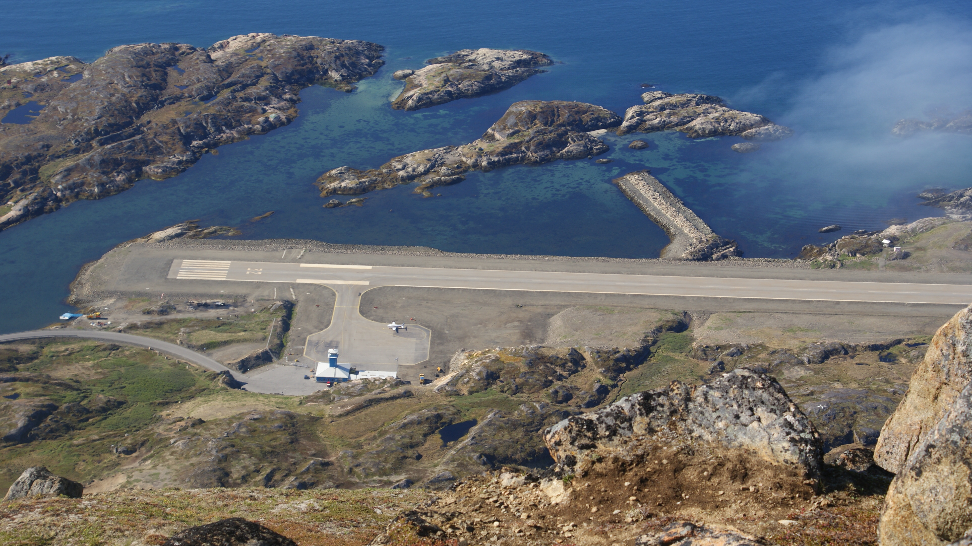 Sisimiut Airport, Greenland, photographed from under the main summit of Palasip Qaqqaa (544m).